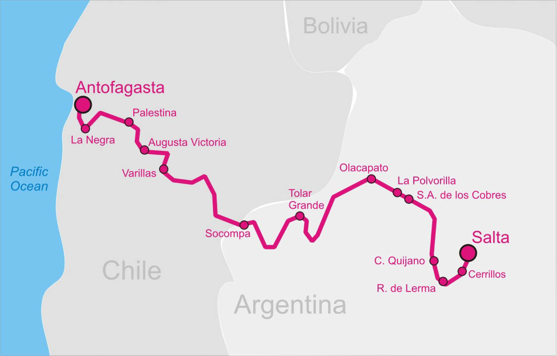 Railway map of the Salta–Antofagasta line (Huaytiquina) that connects Argentina and Chile. The Salta–Socompa line was part of the "Tren a las Nubes" line, although it currently has its terminus in La Polvorilla viaduct.